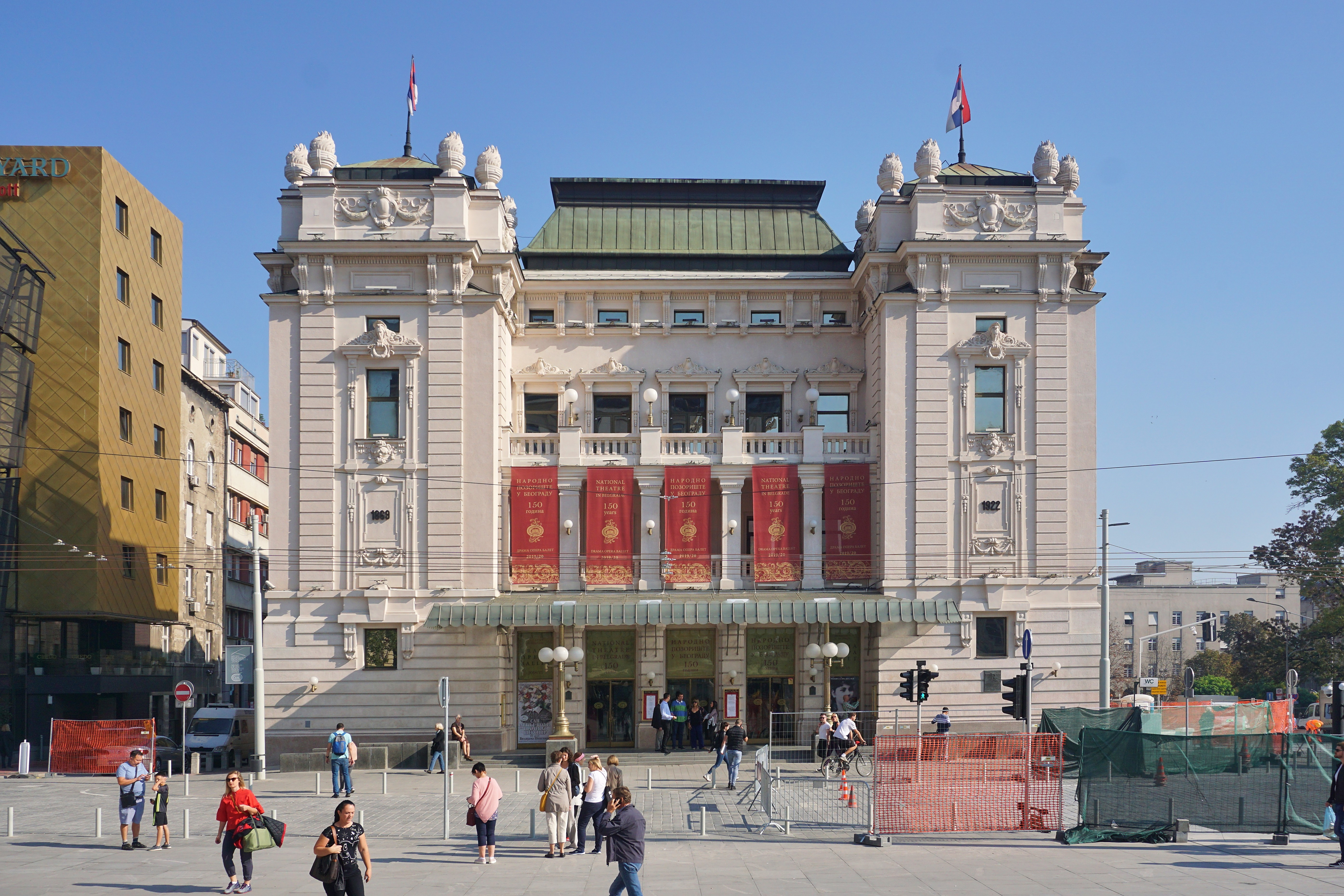 National Theatre in Belgrade